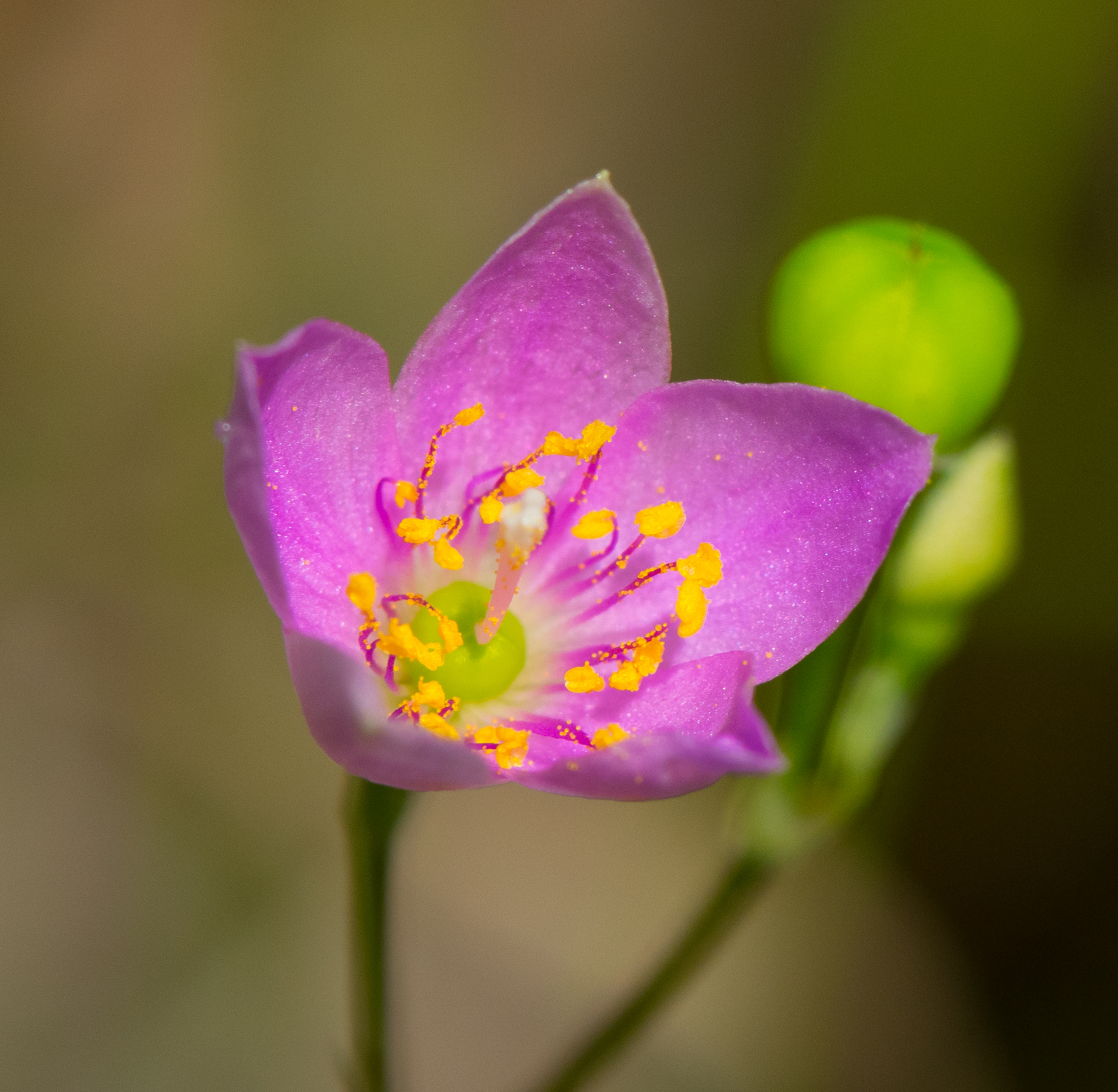 Phemeranthus rugospermus, from Parrish Oak Savanna, Dane County, Wisconsin.